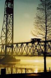 The Kansas City Southern Railroad Bridge over the Neches River in Beaumont is a major transportation link for the region. -- Photo Steve Buser